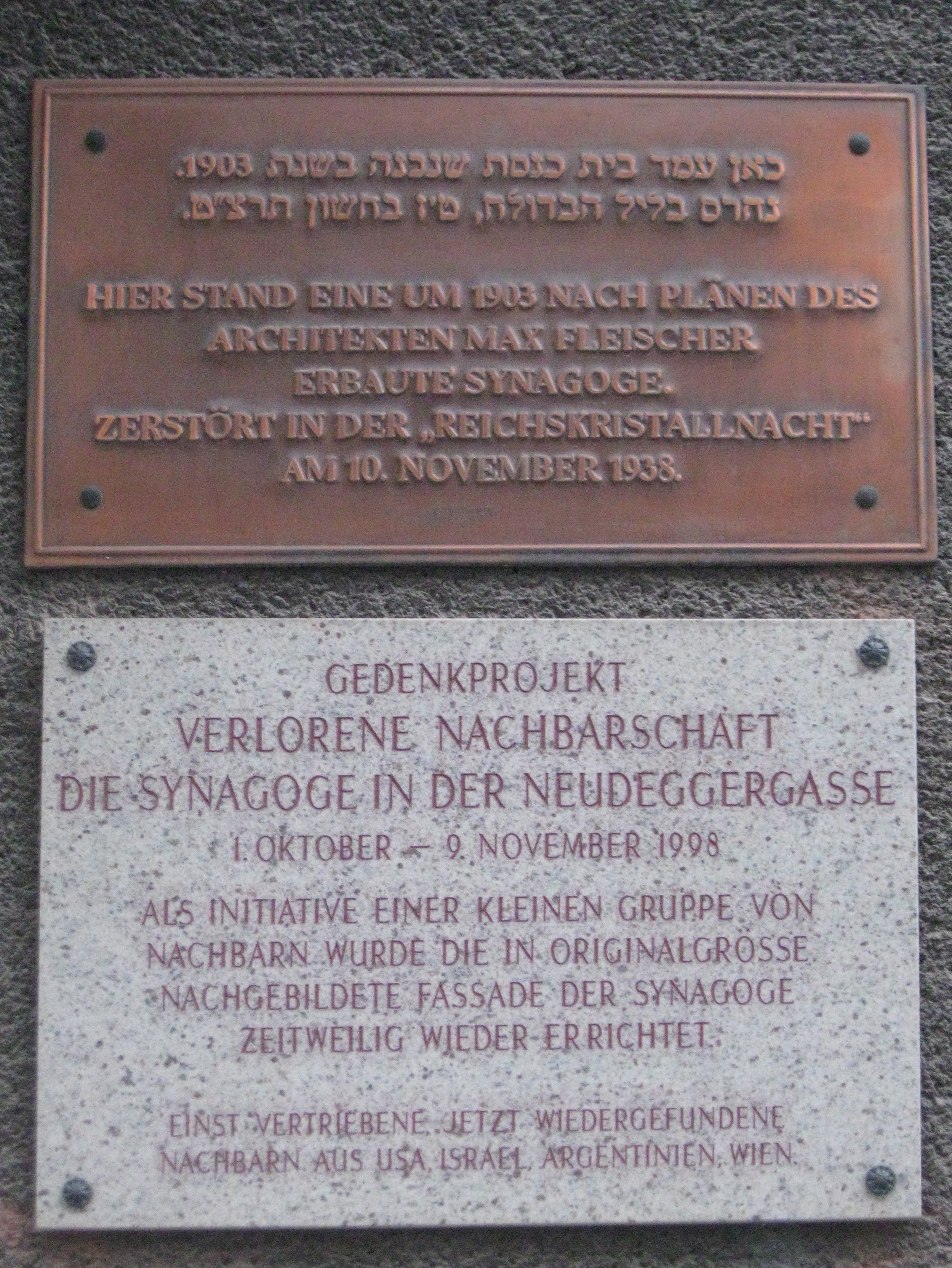 Plaque on the house Neudeggergasse 12 in Vienna. During the Reichskristallnacht pogroms in 1938 the Synagoge Neudeggergasse was destroyed.